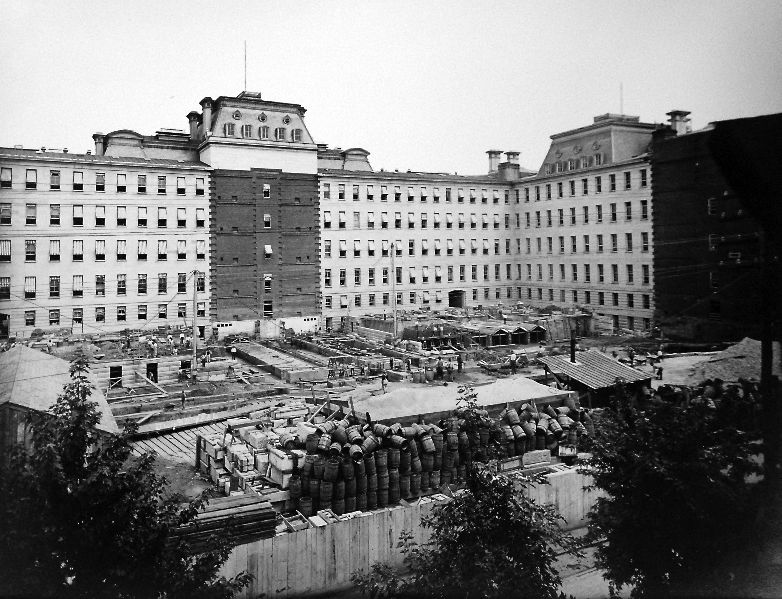 Lot-10574-3: Construction of the State, War, and Navy Department Building (now Eisenhower Executive Building), Washington, D.C., undated. This building held the Naval Records & Library Collection. Courtesy of the Library of Congress. (2016/06/03).